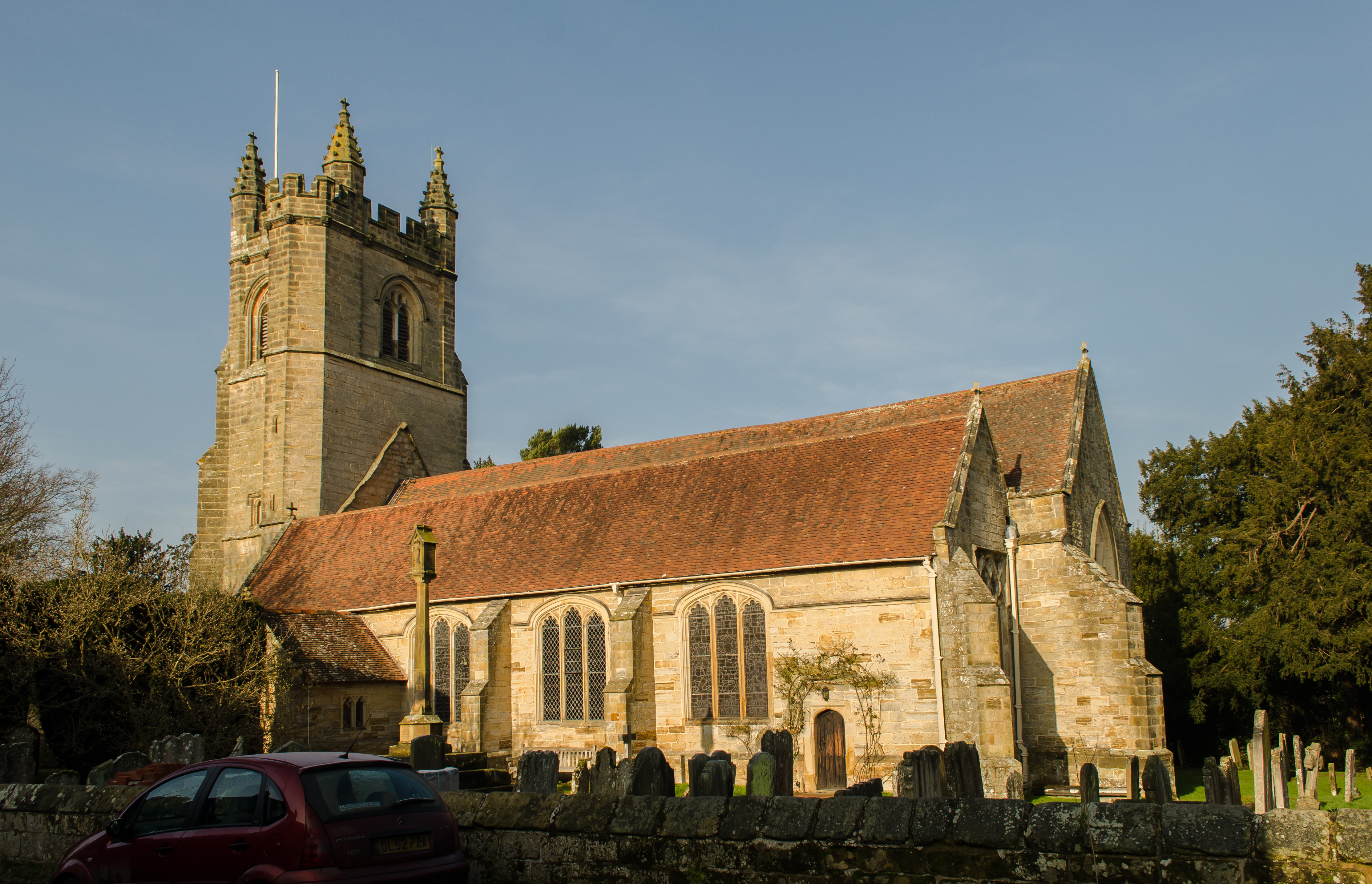 The church is built from local sandstone with tiled roofs, and dates from the early 14th century, although there were probably churches on the site before that. The west tower is perpendicular with four octagonal crocketted pinnacles and carved faces around the string course at the top. There are eight bells. The nave has a 4 bay arcade of early 14th century octagonal columns with pointed arches. The chancel has north and south chapels separated by a two bay arcade. In 1516 Sir Robert Reid enlarged the north Chapel to its present size and founded a Chantry. In 1624 the church was struck by lightning and caught fire, the extensive damage was not repaired until 1629 when the church was re-consecrated. A south porch was added. The nave roof was rebuilt with a flatter pitch, which can be seen on the side of the tower. The south wall of the south aisle was also rebuilt following the fire. Some of the earlier stonework may have been salvaged. There were two minor restorations in the Victorian era, the reredos was erected in 1866 and the seating revised. A chapel/meeting room was built at the base of the tower in 1978. The font dates from 1628 with an elaborate cover. The pulpit dates from the same period. The chancel has an altar tomb from 1650 to Frances Reeve of London and her two husbands. The church has a large collection of hatchments, and there is a elaborate brass chandelier from 1726, similar to the one at Sundridge. Most of the stained-glass is Victorian. The organ is by T. C. Lewis from circa 1868 and was upgraded by Walker in 1968. The churchyard has a vault of the Streetfeild family with a small building from the 18th century inside of which a flight of steps to the vault which contains some 15 coffins.